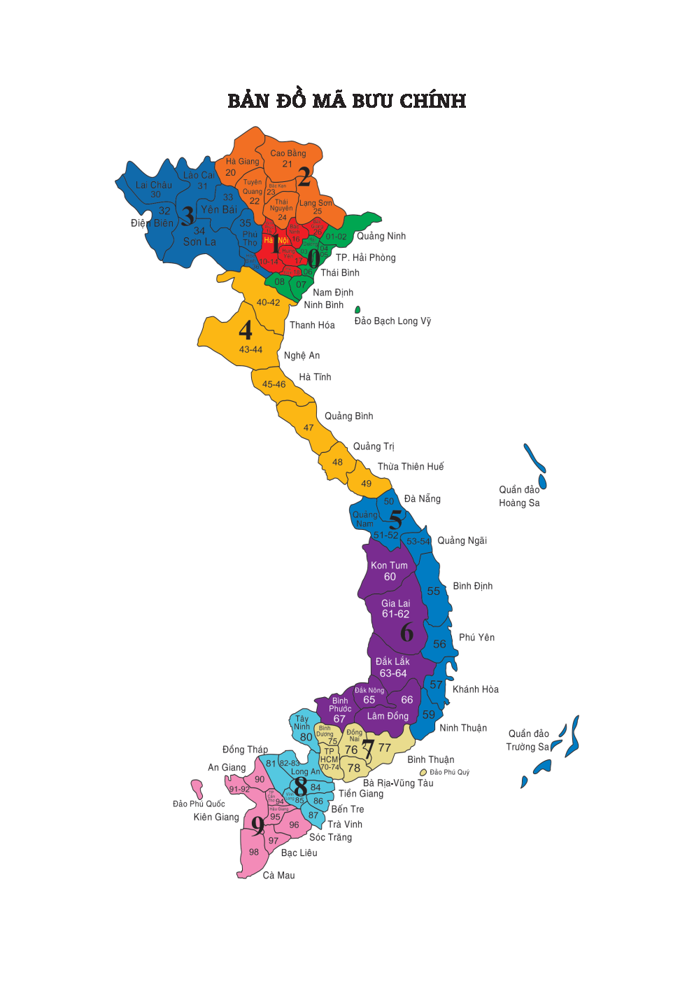 Postal codes of Vietnam (since 2018) by Ministry of Information and Communications.